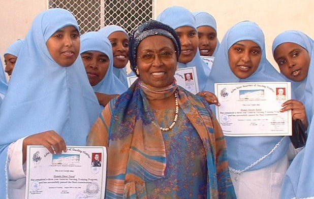 Edna Adan Ismail of the Edna Adan Maternity and Children's Hospital in Hargeisa, Somaliland, shown here with graduate nurses.